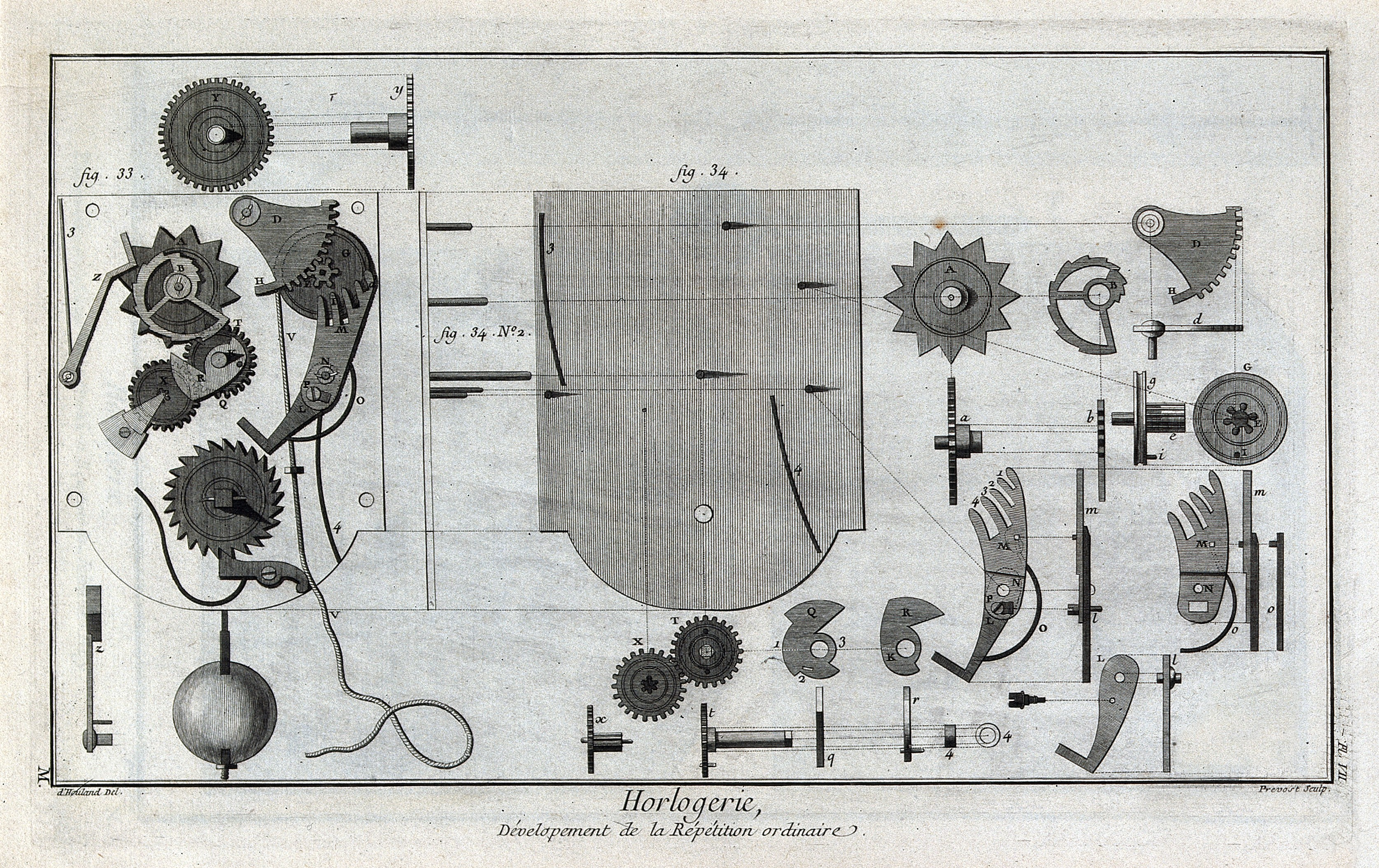 Clocks: a repeater clock mechanism, exploded view. Engraving by Prevost after G. d'Heuland. Iconographic Collections Keywords: Benoit Louis Prevost